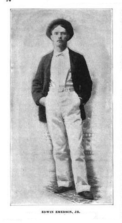 Edwin Emerson Jr., American spy in 19th century Puerto Rico